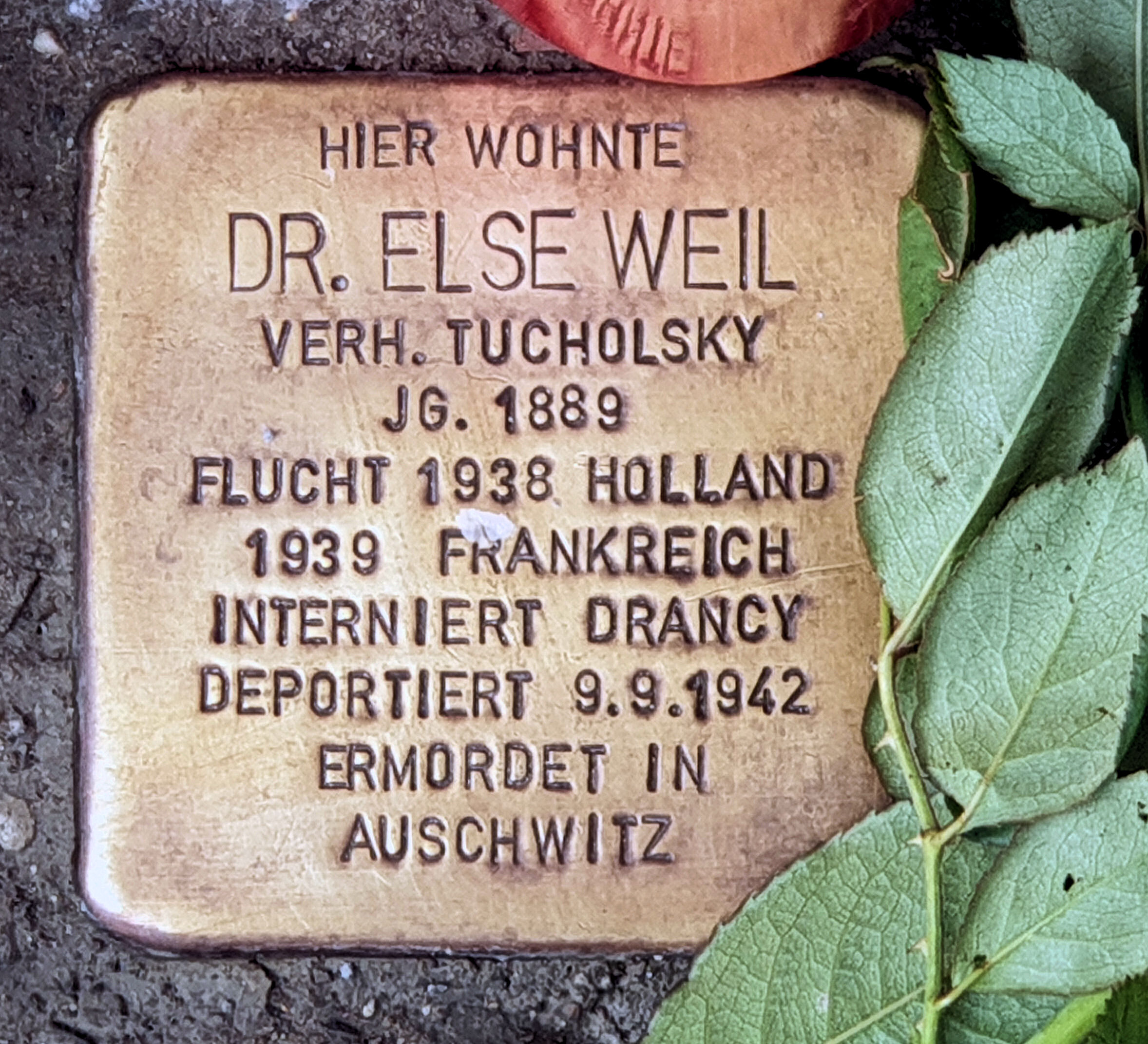 "Stolperstein" (stumbling block), Else Weil, Bundesallee 79, Berlin-Friedenau, Germany